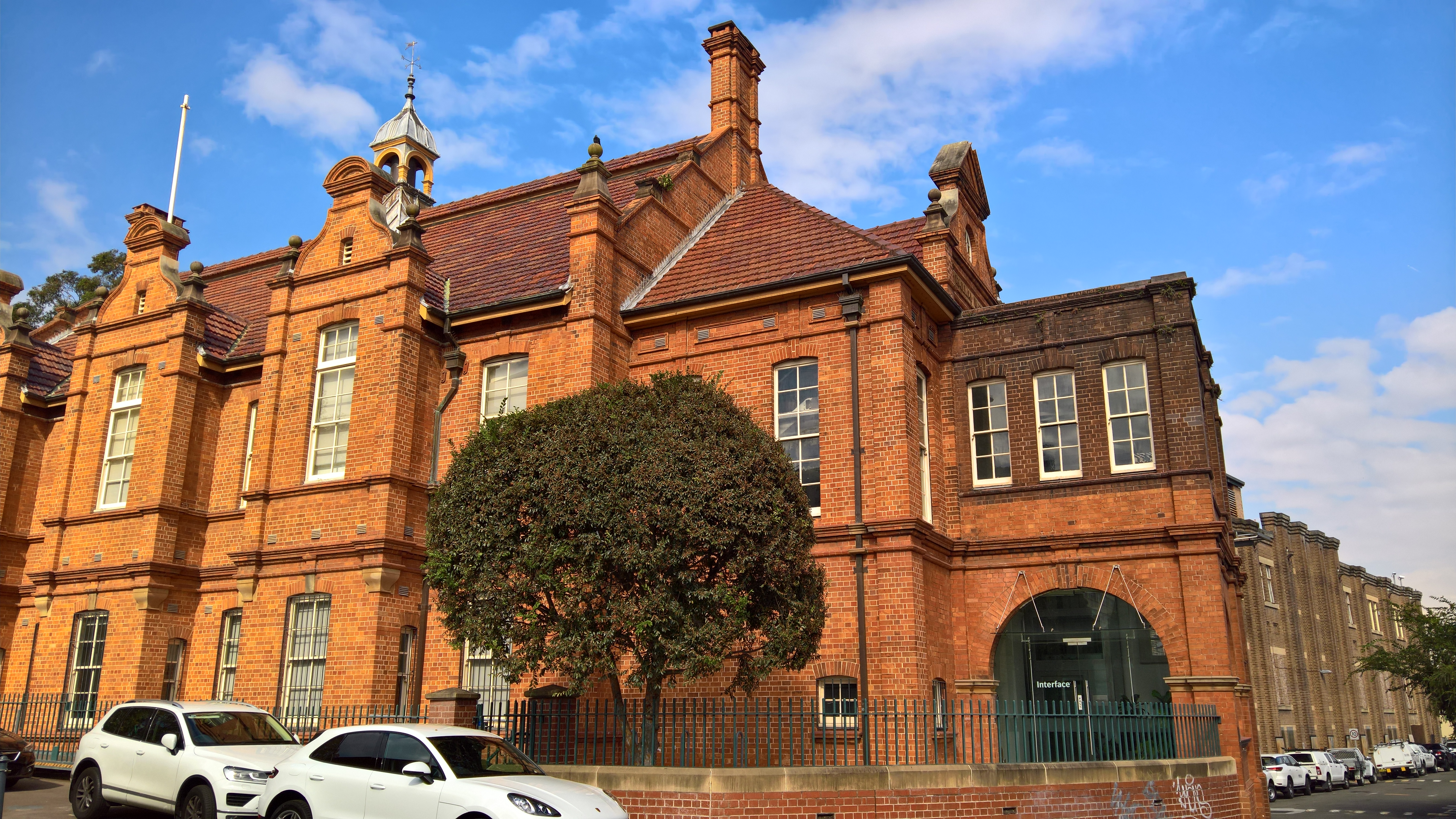 Railway Institute Building, 101 Chalmers Street, Surry Hills, NSW 01 is listed on the New South Wales Heritage Register